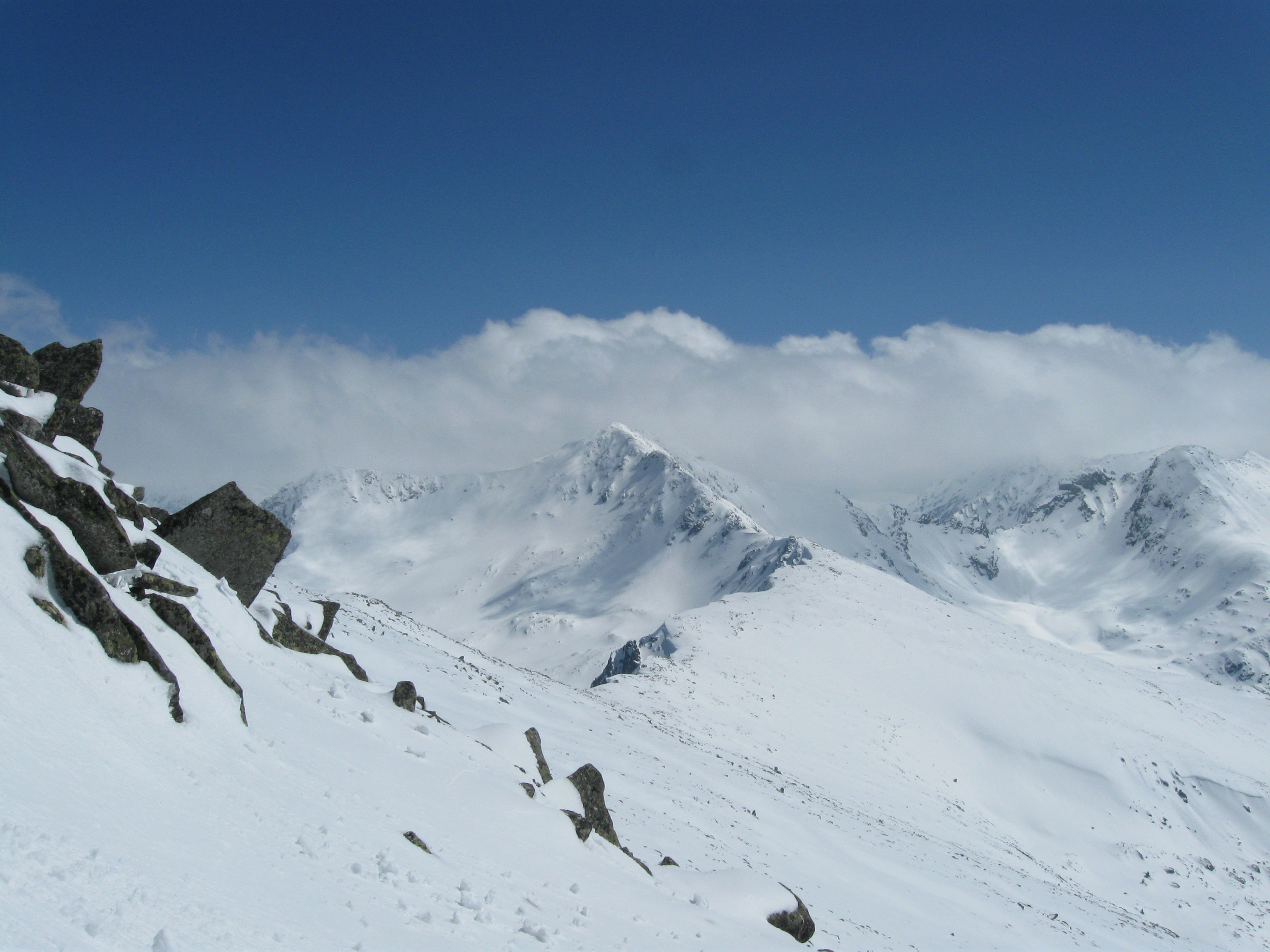 View of the Bucura Peak II(2378m) from the Retezat mountains during spring. The picture was taken from the southern slope of the Retezat peak.